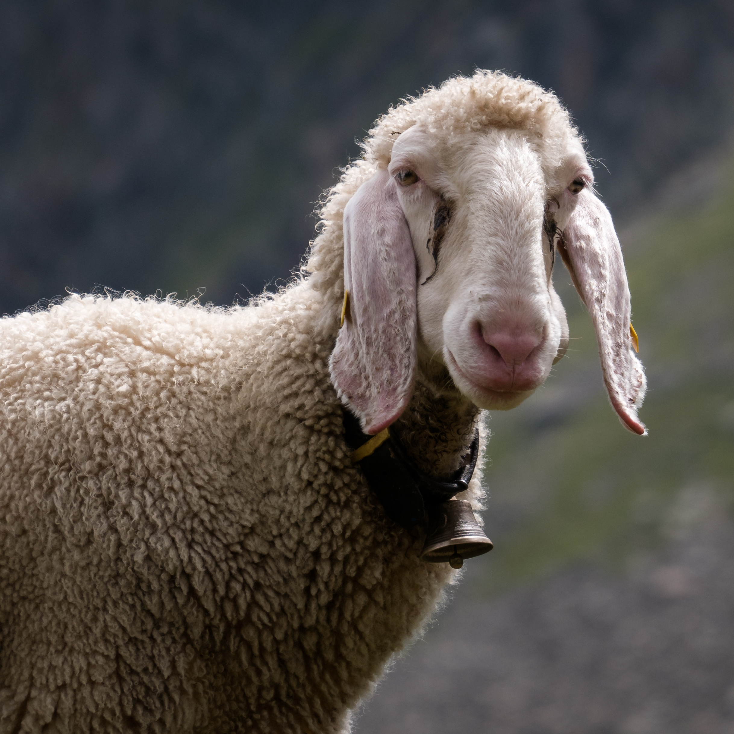 Head of a Tyrolese Mountain Sheep (Tiroler Bergschaf). Stubai Valley, Tyrol, Austria